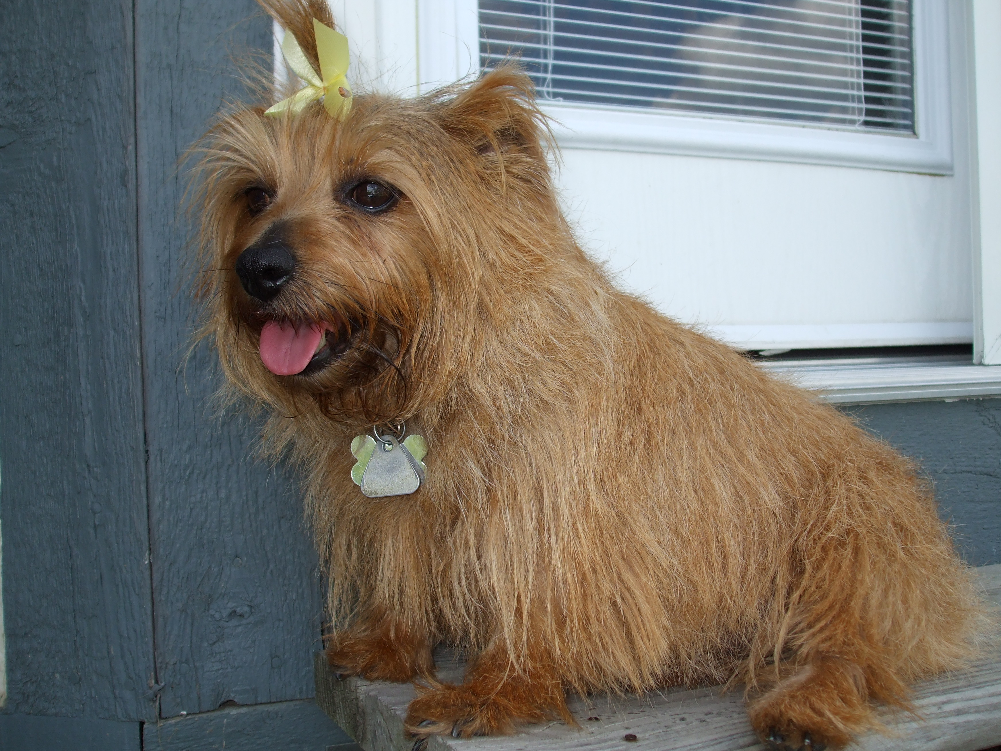 Recently groomed Norfolk Terrier